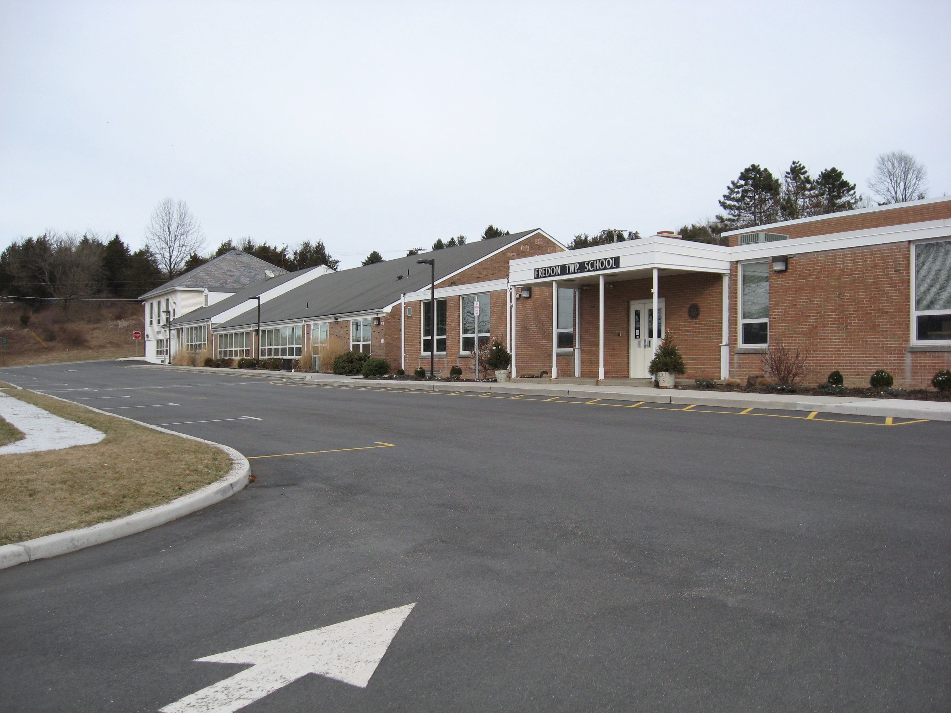 Fredon Elementary School, NJ Route 94 and Phil Hardin Road, Fredon Township, New Jersey. Seen from the southwest corner.